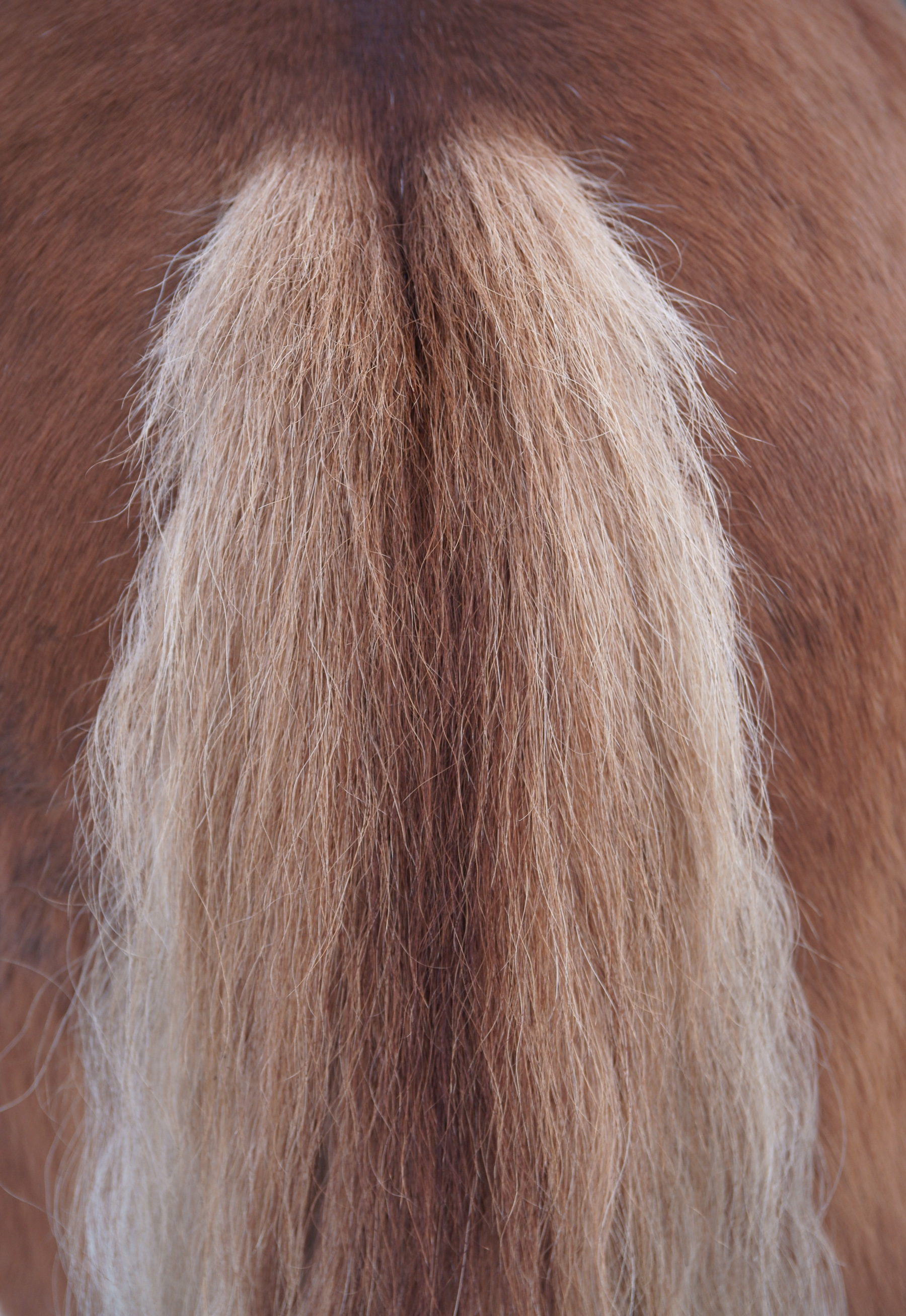 Horse rear.